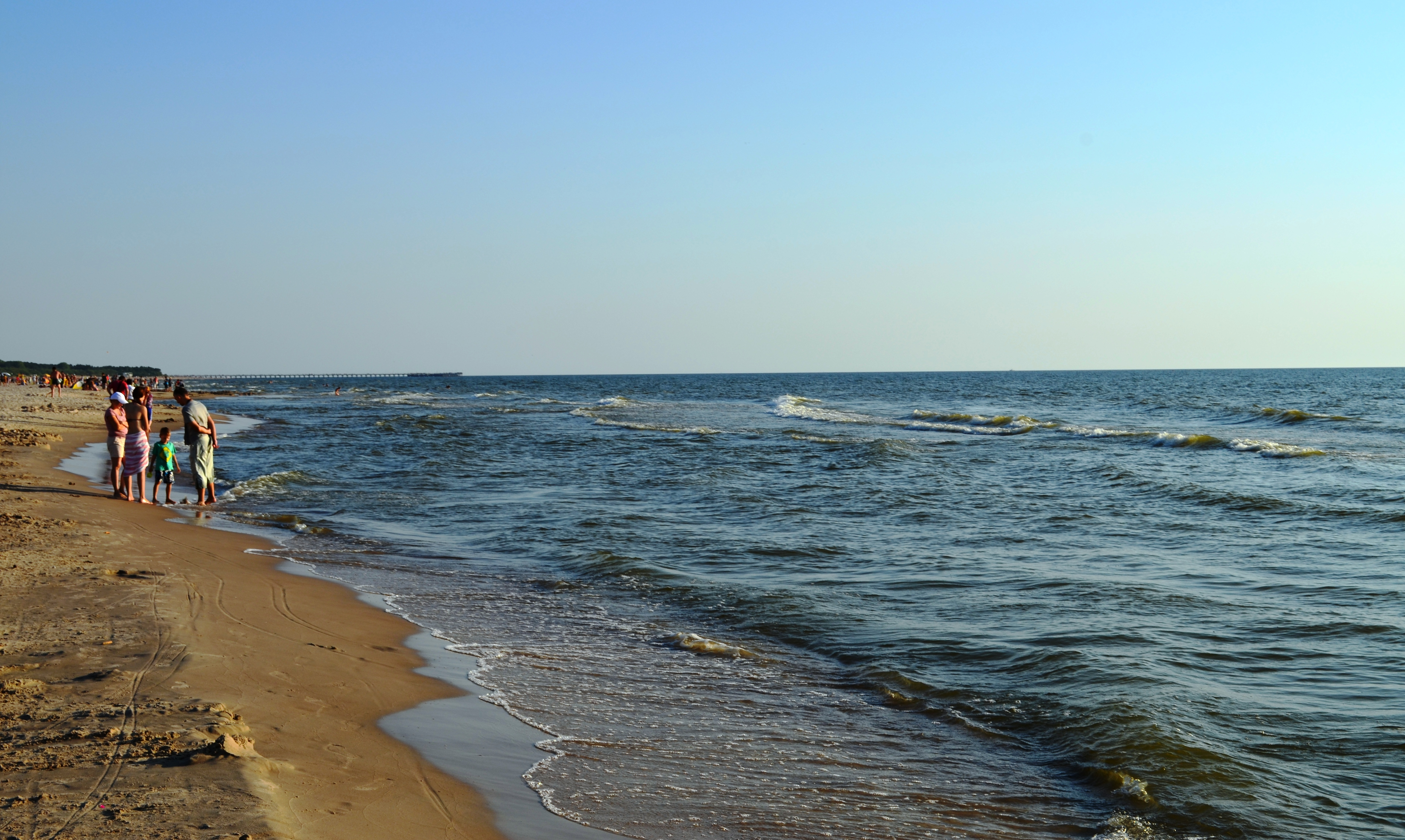 Baltic seaside by Vanagupė, Palanga, Lithuania)